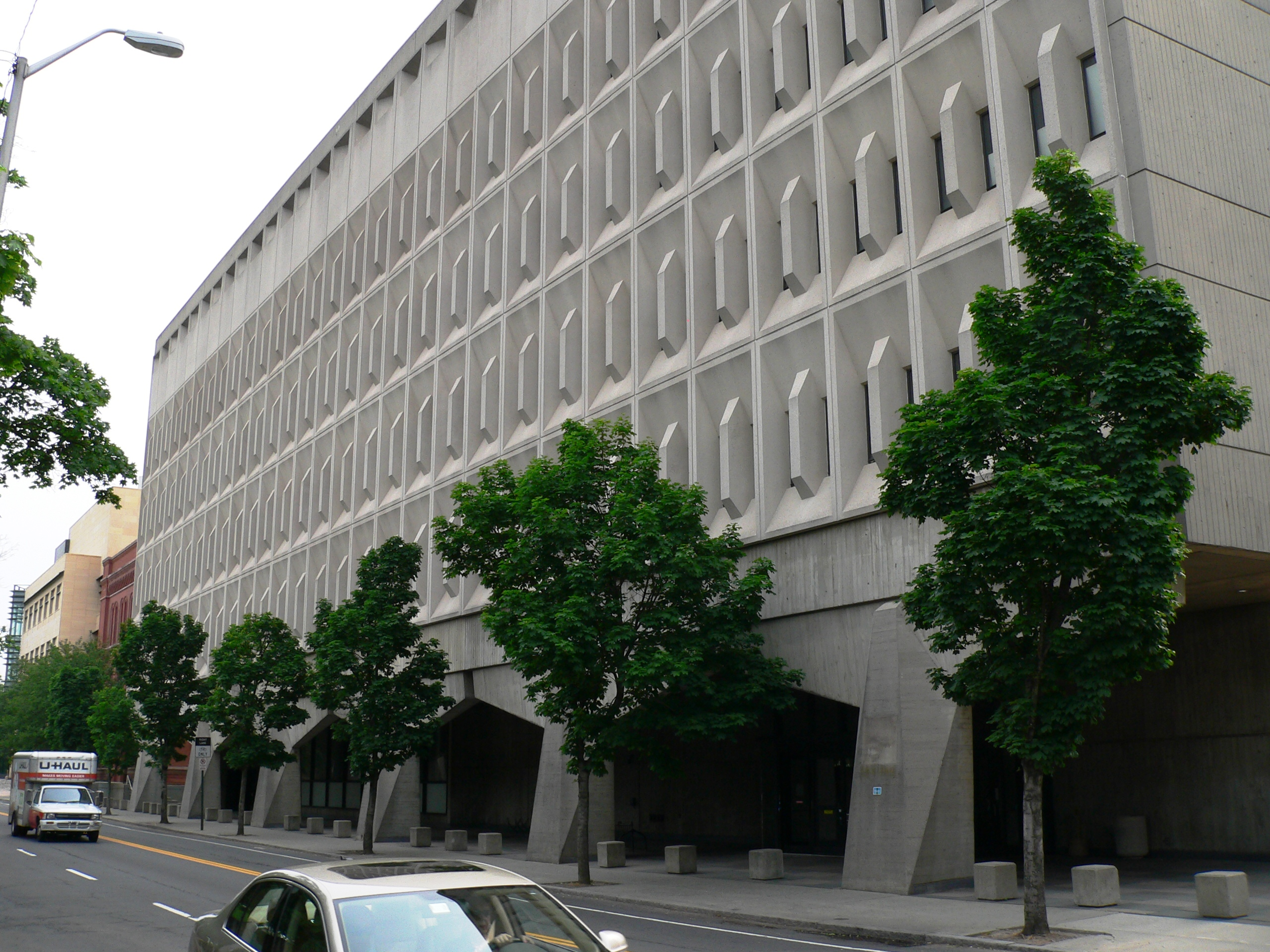 I took the picture from the street of this Yale University building (Becton Hall) designed by the architect Marcel Bereuer.